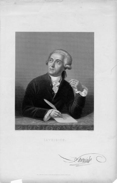 Mounted print of Antonie Lavoisier, from the University of Dundee Museum Collections.